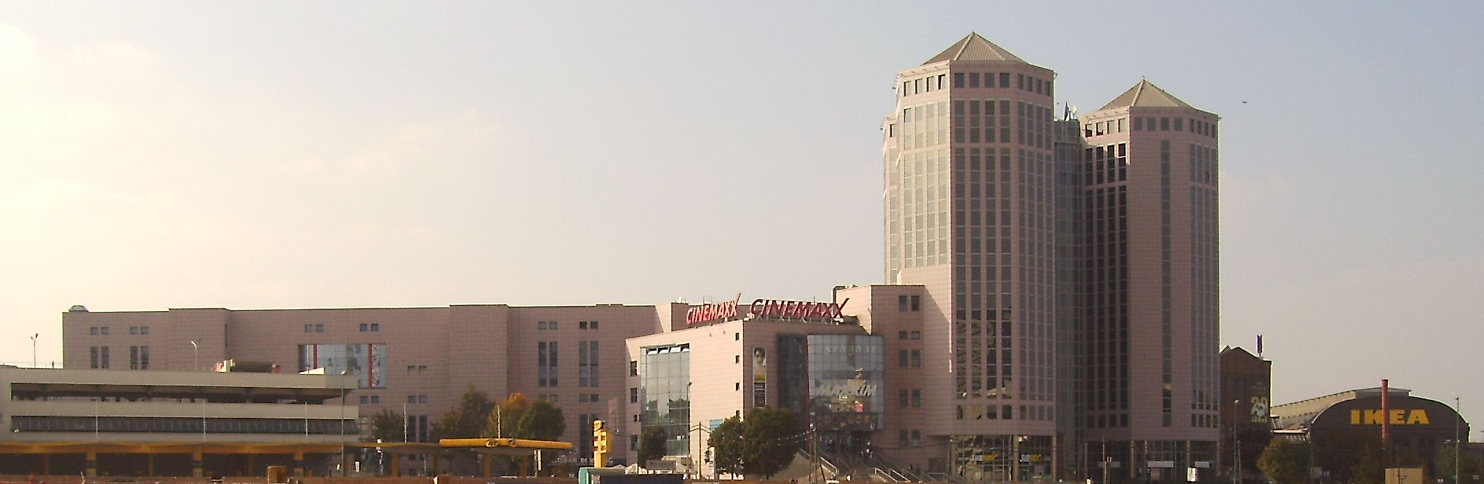 Cinemaxx, Essen, biggest Cinemaxx in Germany, then Weststadt-Türme, Colosseum Theater and Ikea parking deck